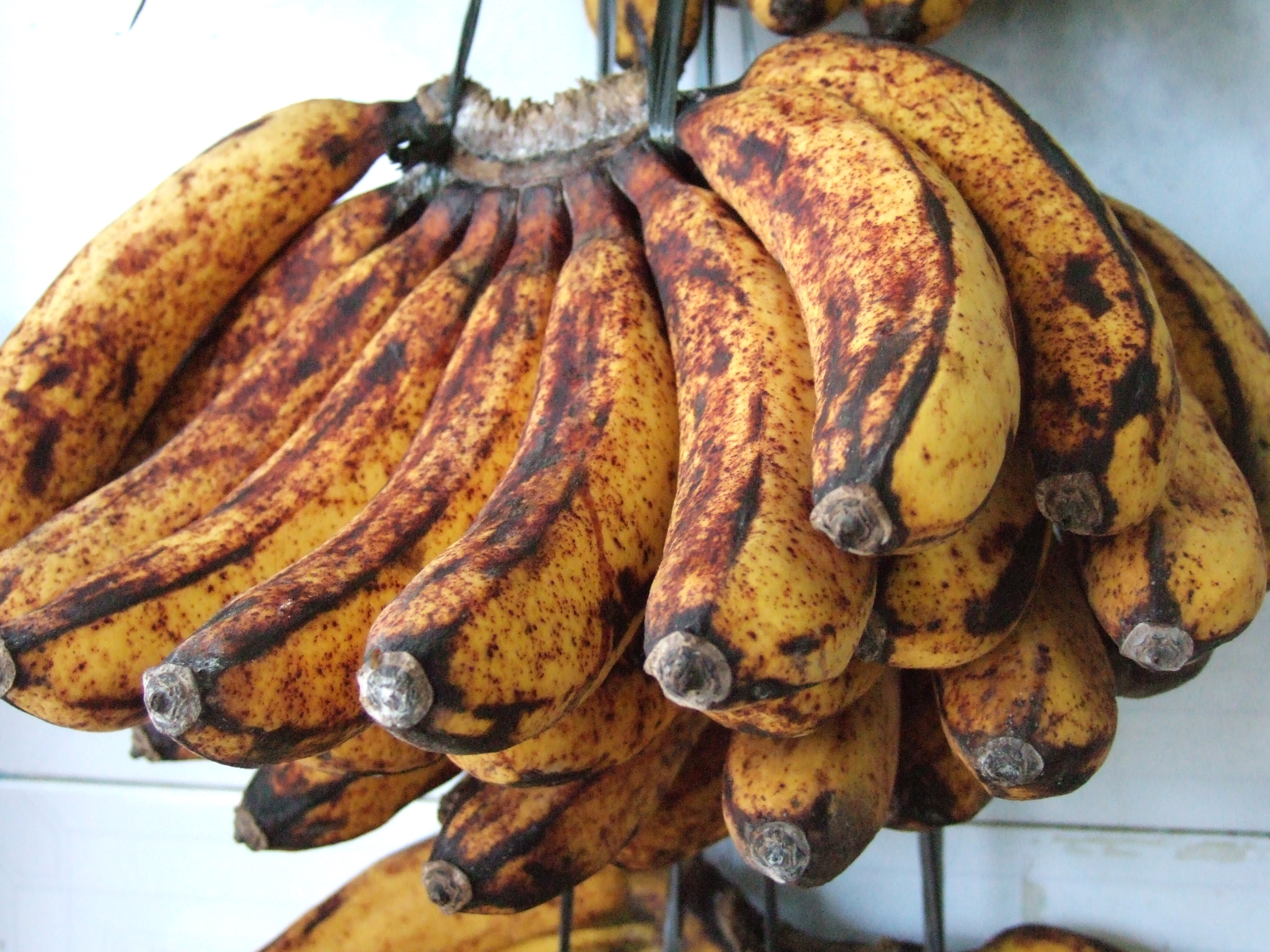 Banana (barangan red), Indonesia